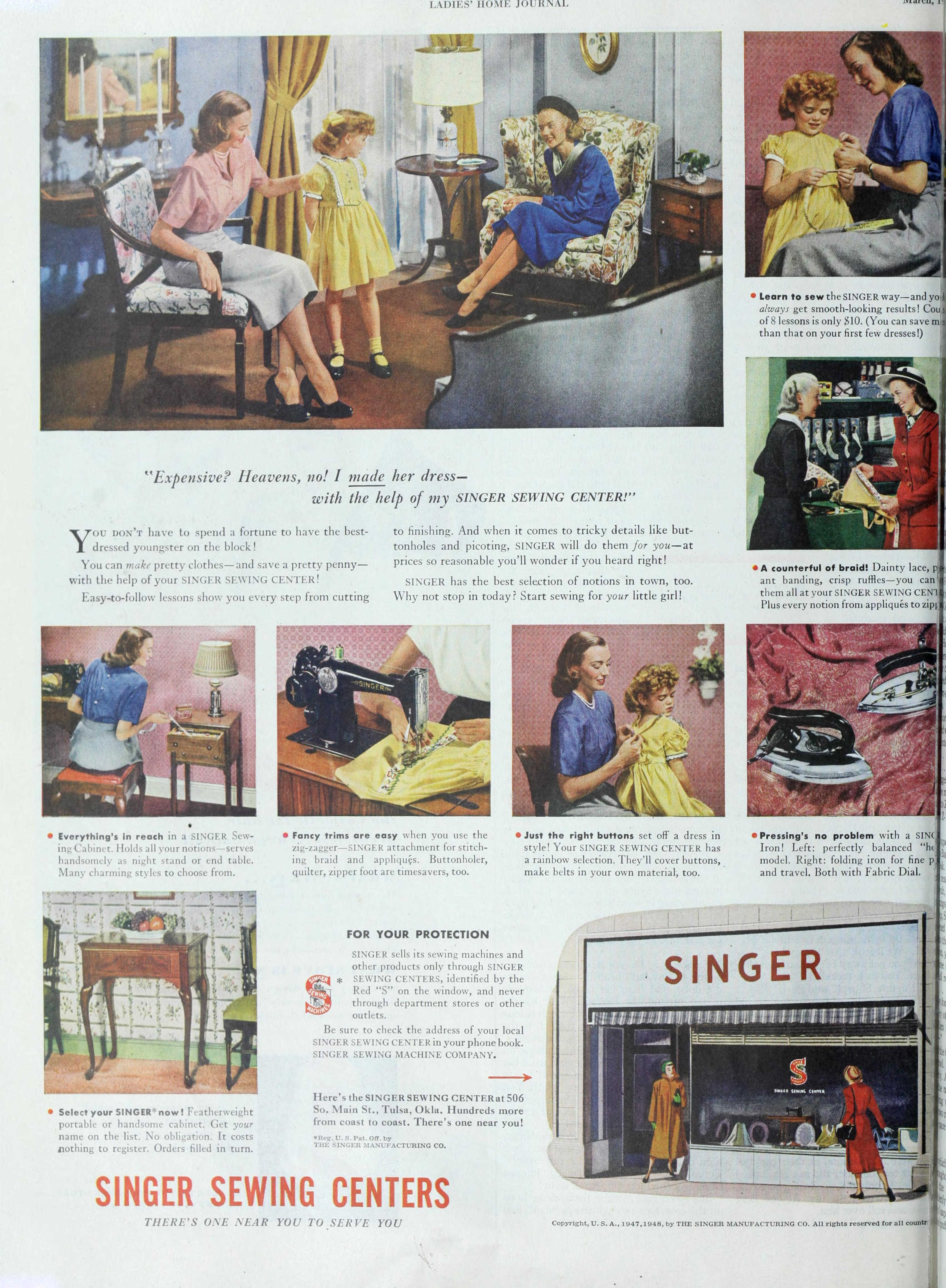 Select your Singer now!, 1948 Title: The Ladies' home journal Year: 1889 (1880s) Authors: Wyeth, N. C. (Newell Convers), 1882-1945 Subjects: Women's periodicals Janice Bluestein Longone Culinary Archive Publisher: Philadelphia : (s.n.) Text Appearing Before Image: *some pronounce it sivahv... others say sivayv... either tvay it meansbeautiful hair. AT YOUR BEAUTY SHOP, DRUG STORE,DEPARTMENT STORE LADIES HOME JOURNAL Text Appearing After Image: '